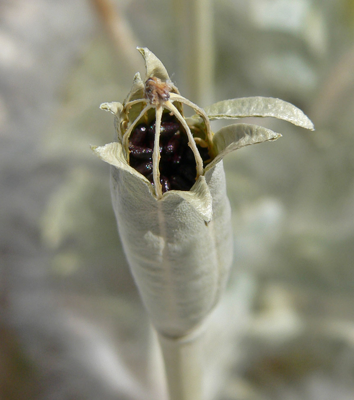 Arctomecon merriamii seed pod near main road east of Crystal Reservoir, Ash Meadows National Wildlife Refuge, southern Nevada